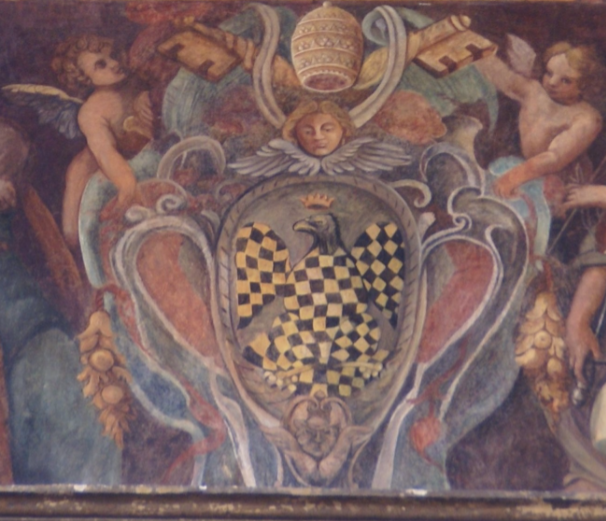 Coat of arms of Pope Innocent III, in the "Palazzo del Commendatore", part of the Hospital of the Holy Spirit in Sassia, Rome.